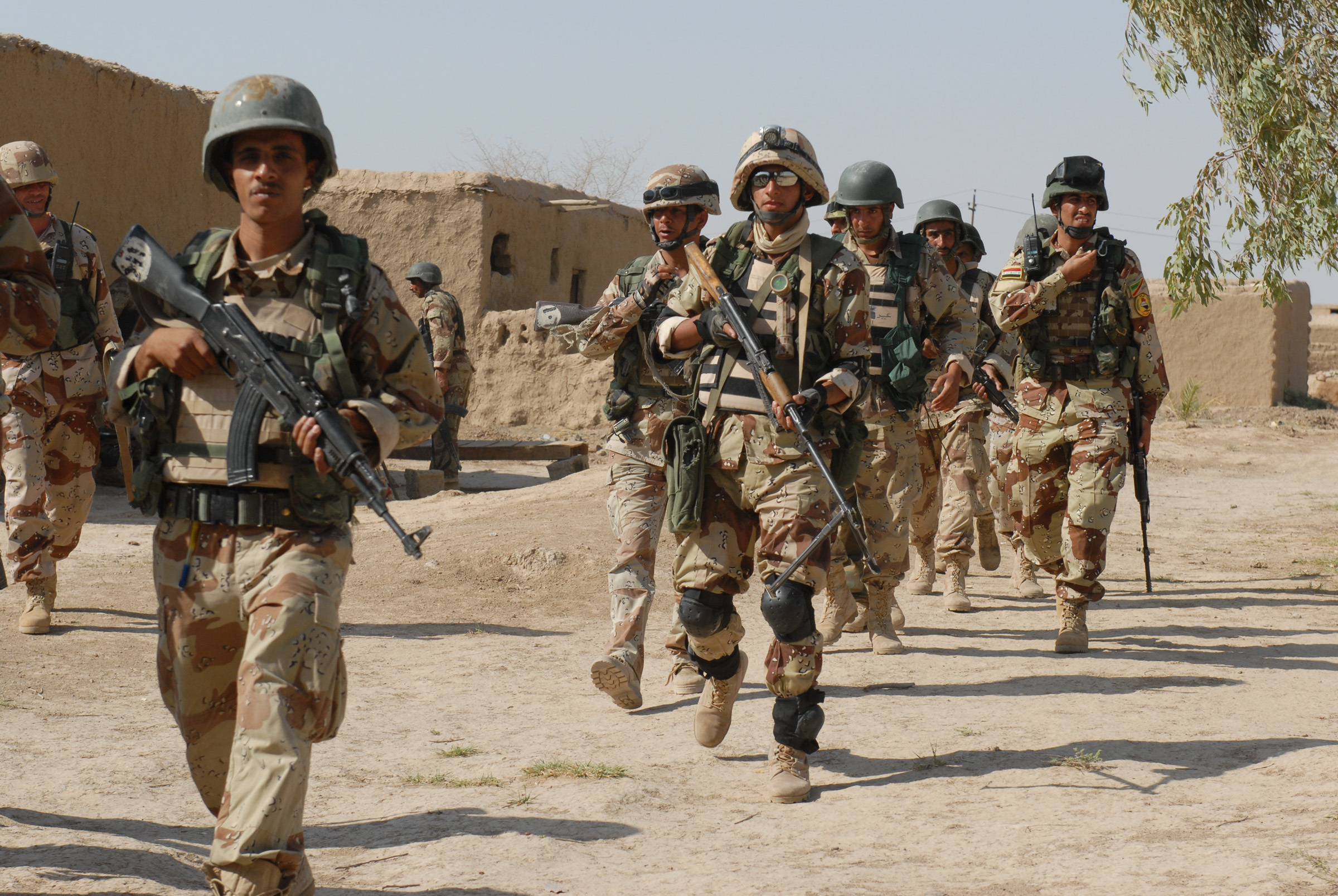 A team of Iraqi soldiers, with the 5th Iraqi Army Division, patrol villages in the Eastern Diyala province of Iraq, in support of Operation Sabre Pursuit, July 25, 2008. The operation is a combined effort to rid the area of insurgent groups and deny a safe haven for further attacks on the Iraqi people.